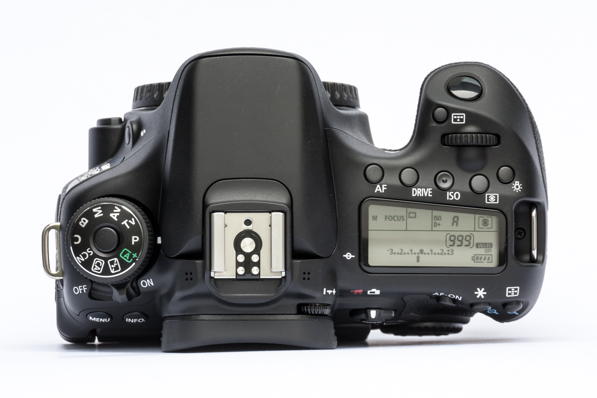 Canon EOS 70D body without lens